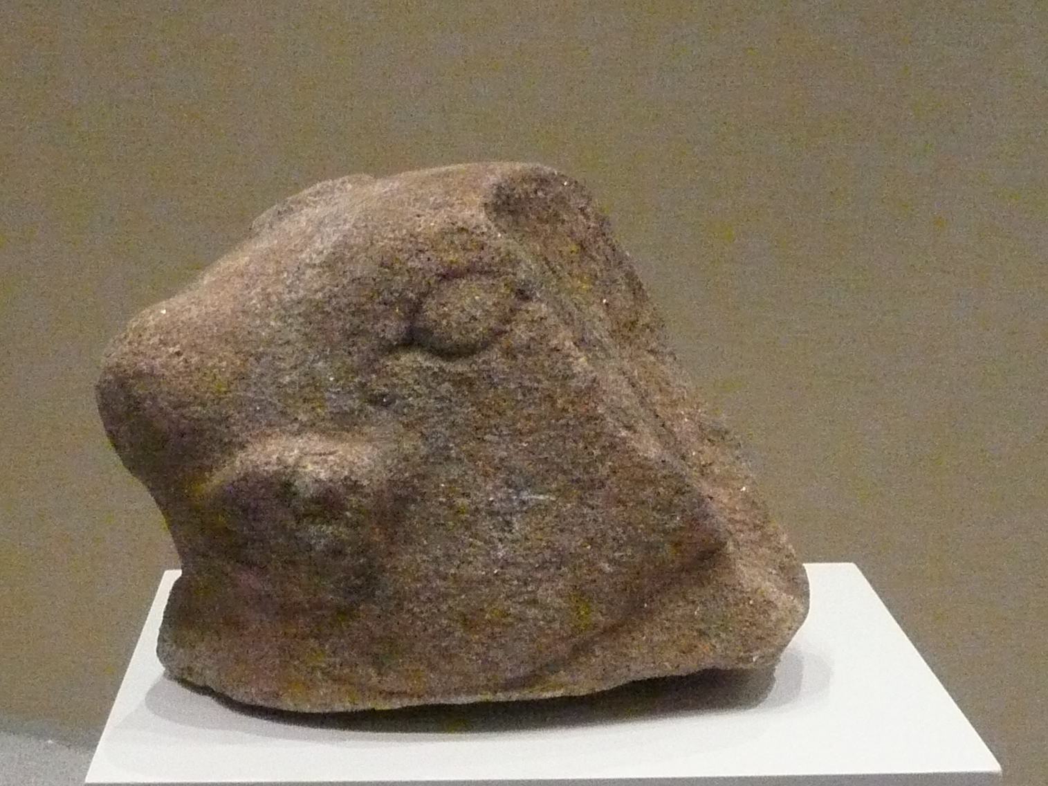 Bull's head (Nandi) found in the vicinity of site 4 near the Bujang Valley, by Dr. Quaritch-Wales in 1935. The snout would have been on right side.